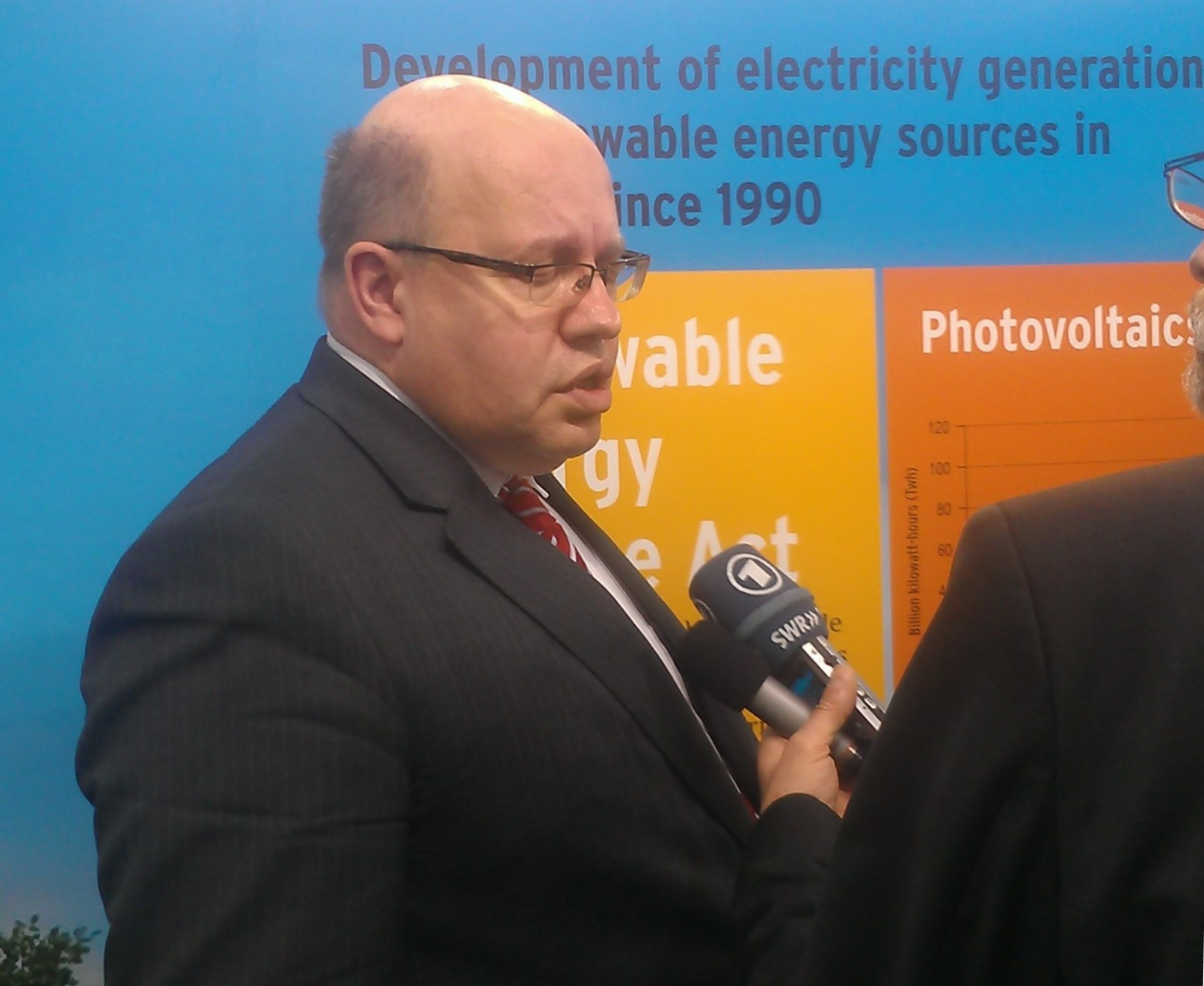 German Minister for Environment Peter Altmaier at the World Future Energy Summit in AbuDhabi 2013